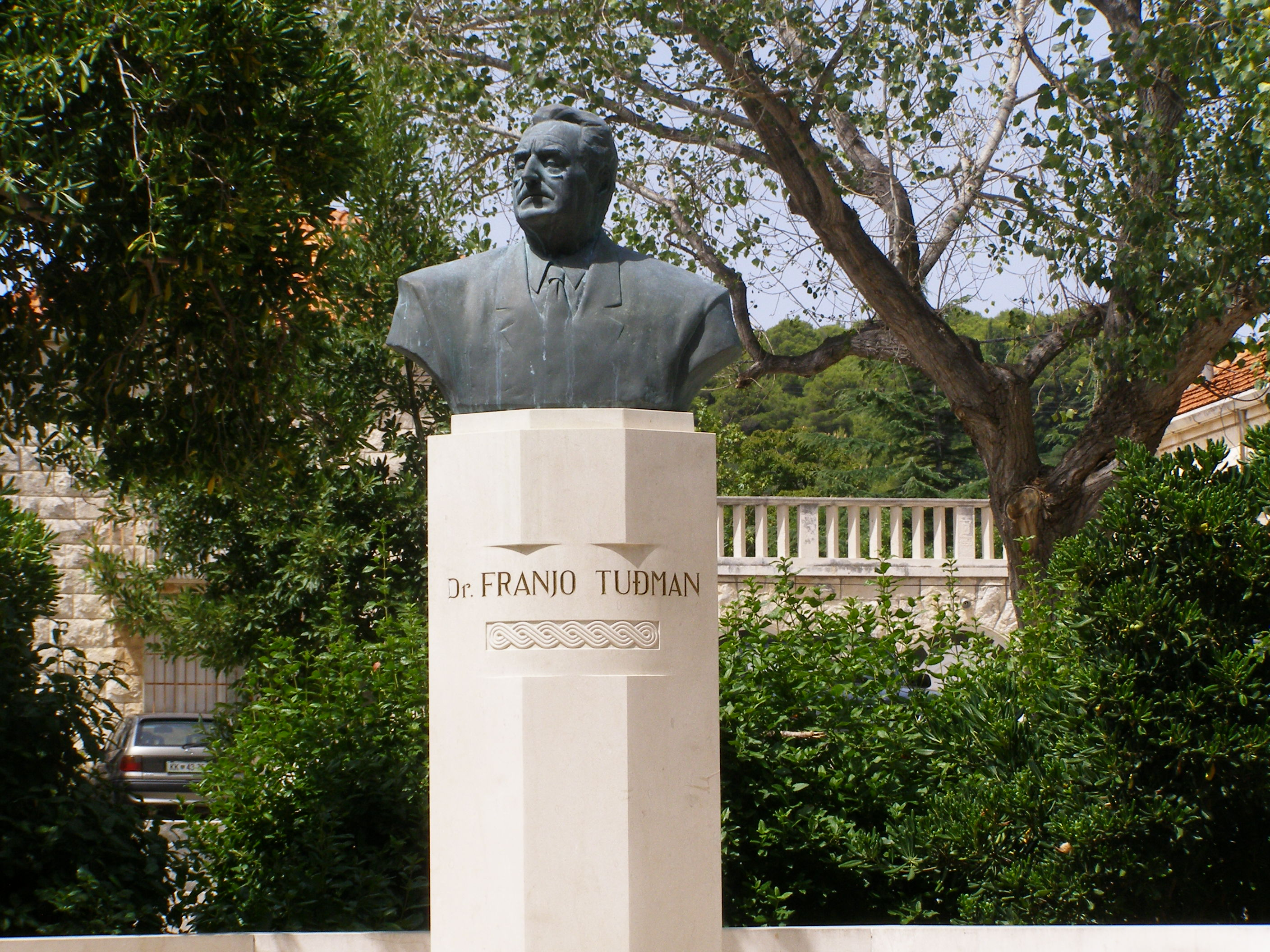 Statue of former Croat president Franjo Tudjman, Selca, Island of Brač, Croatia